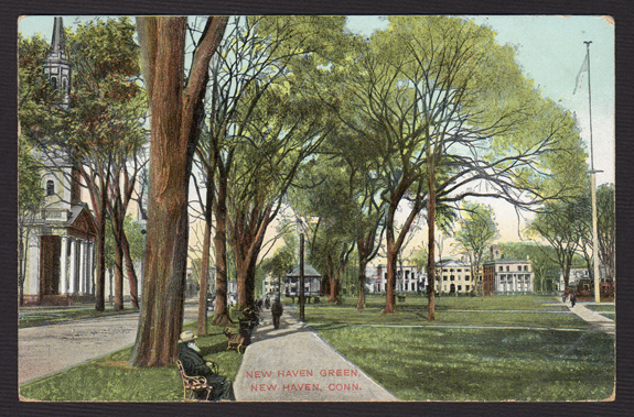 Ignore the misleading "1908" in the image file name above. Postcard depicting New Haven Green in New Haven, source Web page states: "POSTCARD 1910, New Haven Green, NEW HAVEN, CONNECTICUT [...] Postally used, one cent stamp intact"